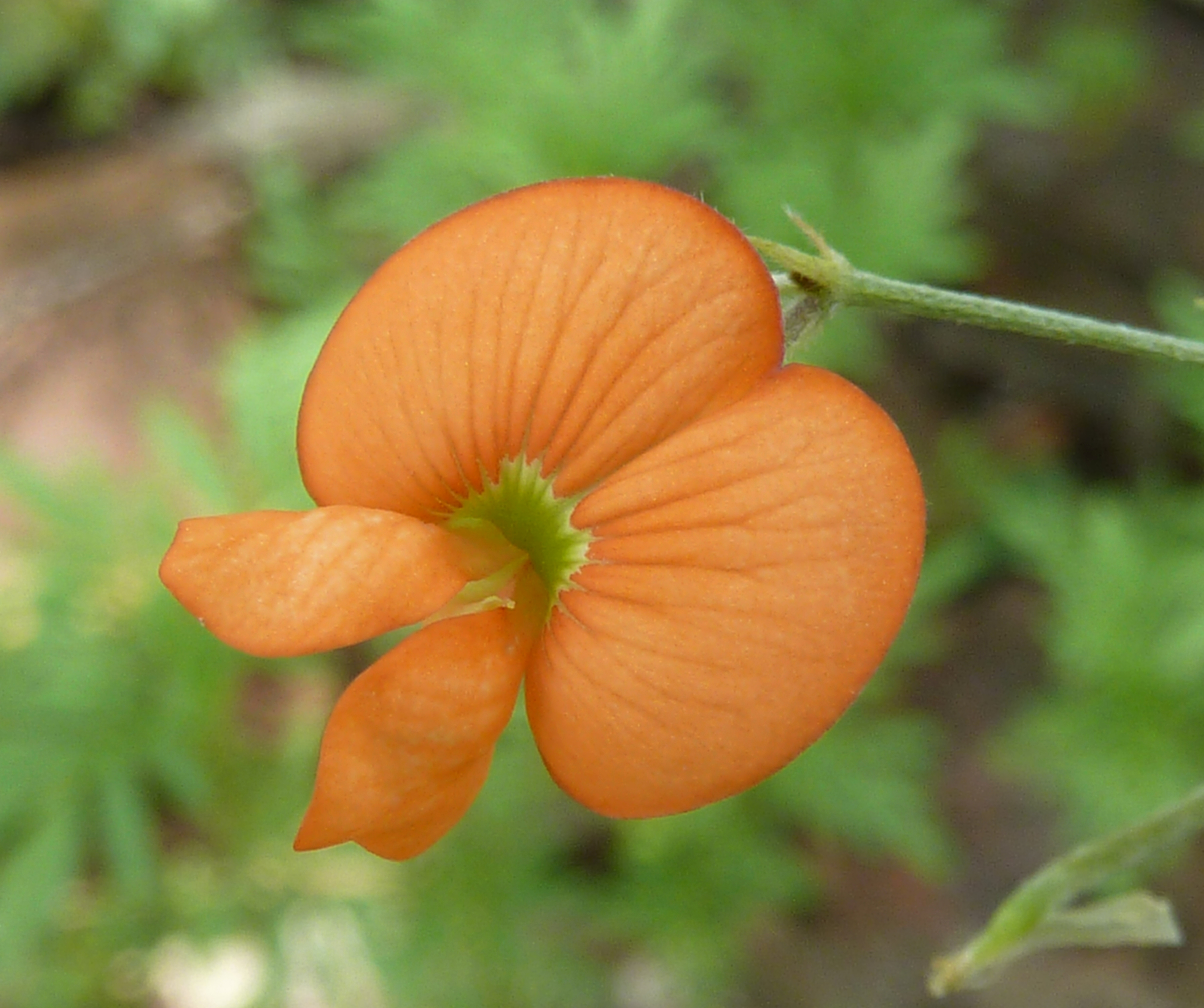 Flower of Orange tephrosia in the Voortrekker Monument Nature Reserve, growing in the shade of Protea caffra